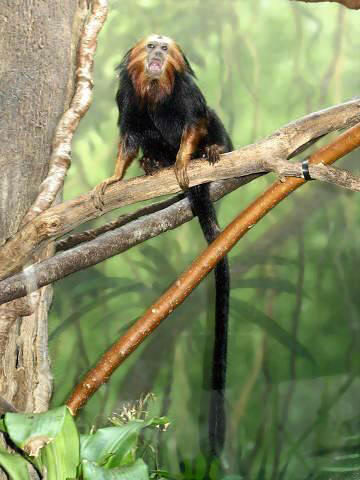 Description: Golden-headed Lion Tamarin - Source: own work - Location: Central Park Zoo, New York - Author: self, User:Stavenn